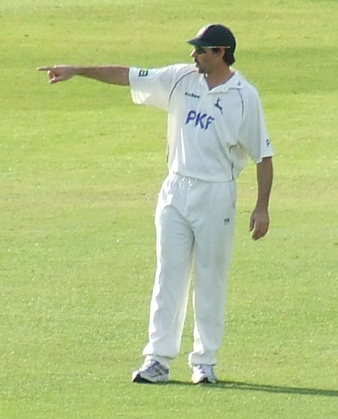 Stephen Fleming captaining Nottinghamshire CCC.